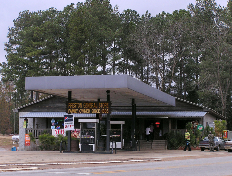 Preston, Mississippi; December 30, 2010.